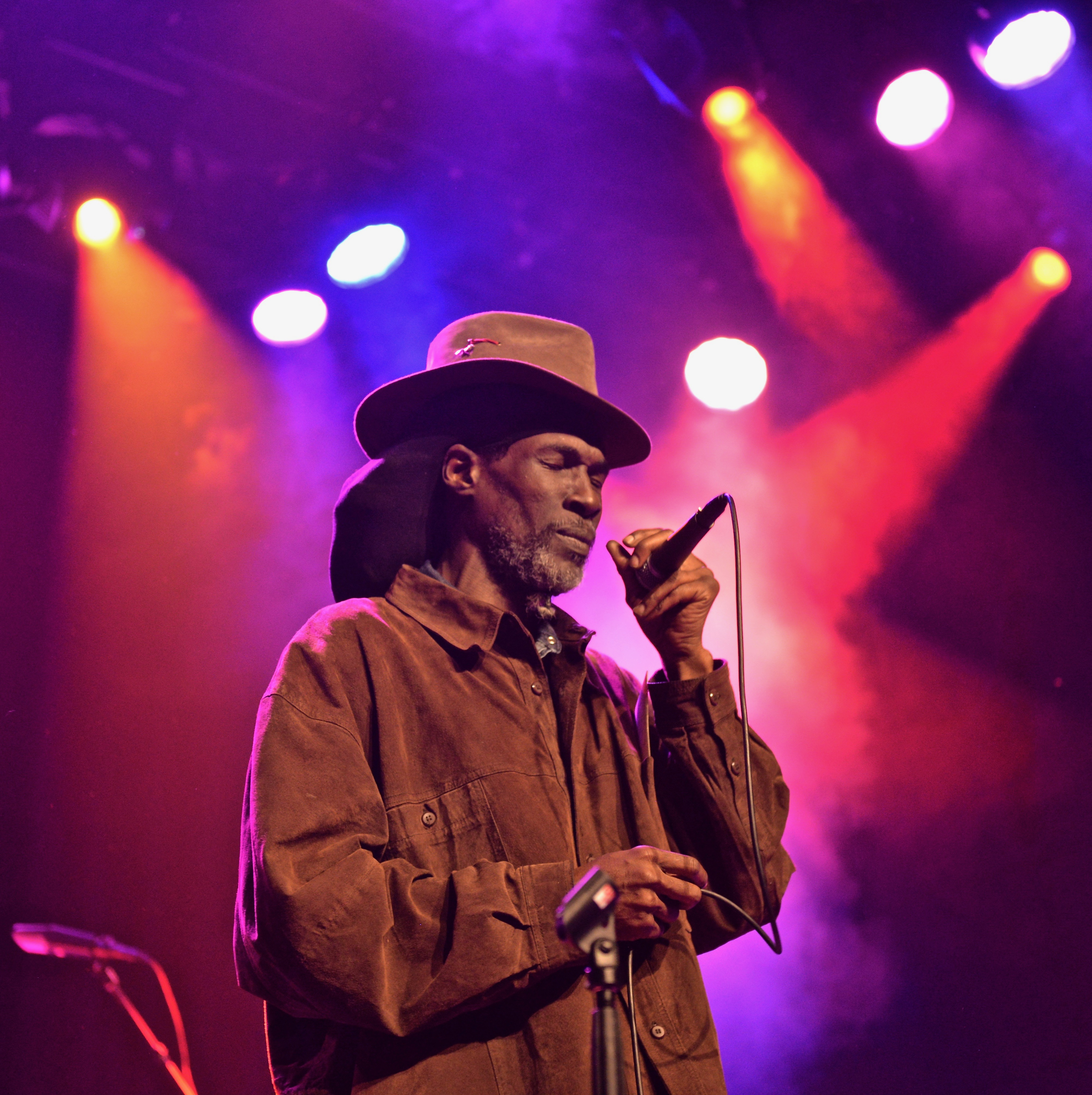 Akae Beka performing live in Tilburg, Netherlands, May 11, 2017. Picture by Peter Verwimp